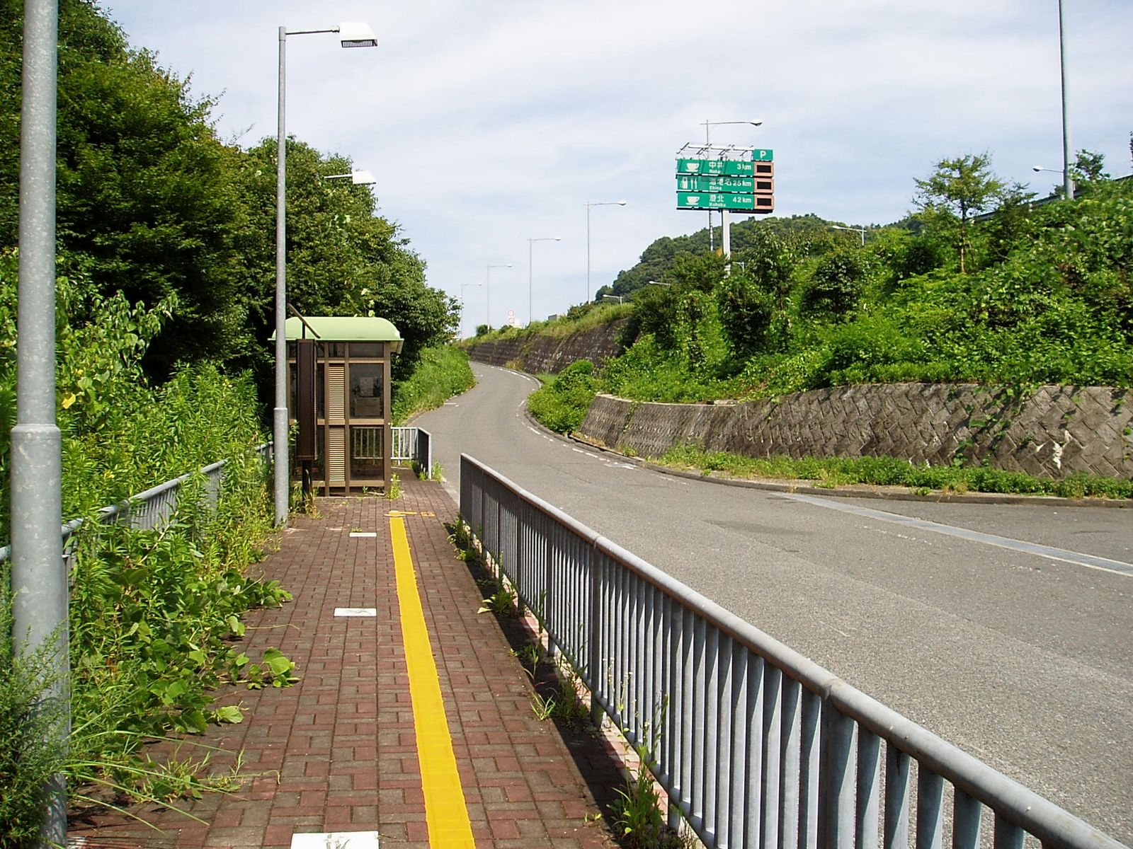 Tomei Ooi Bus Stop for Tokyo